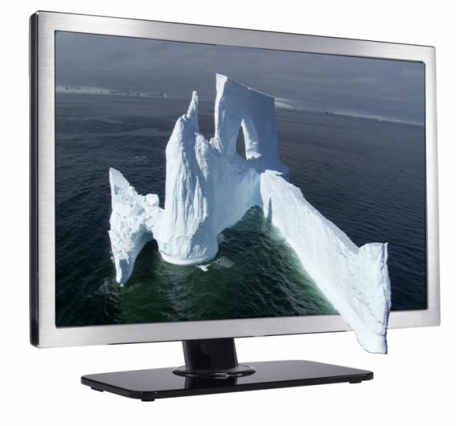 A 3D display.